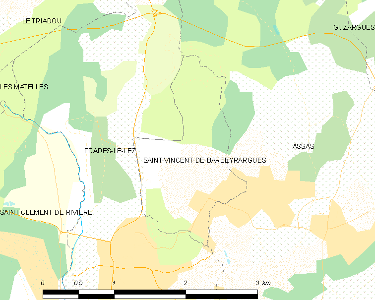 Map commune FR insee code 34290.png - Saint-Vincent-de-Barbeyrargues